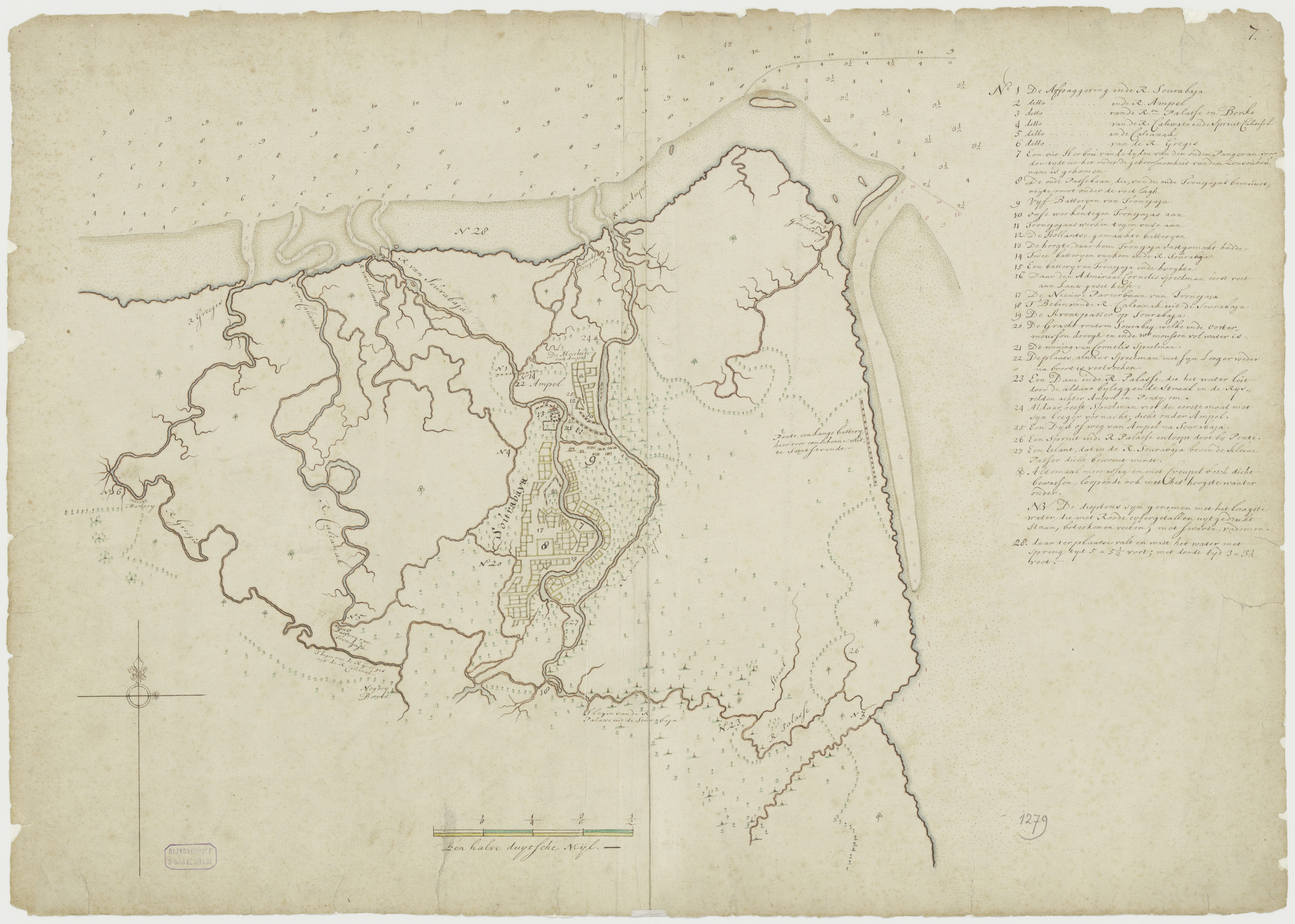 Map of Battle of Surabaya (1677) when the battle is in progress. Positions of Trunajaya and Dutch forces, including artillery batteries, fortifications and structures are depicted At this point the Dutch has taken Ampel but Trunajaya still control the city center.